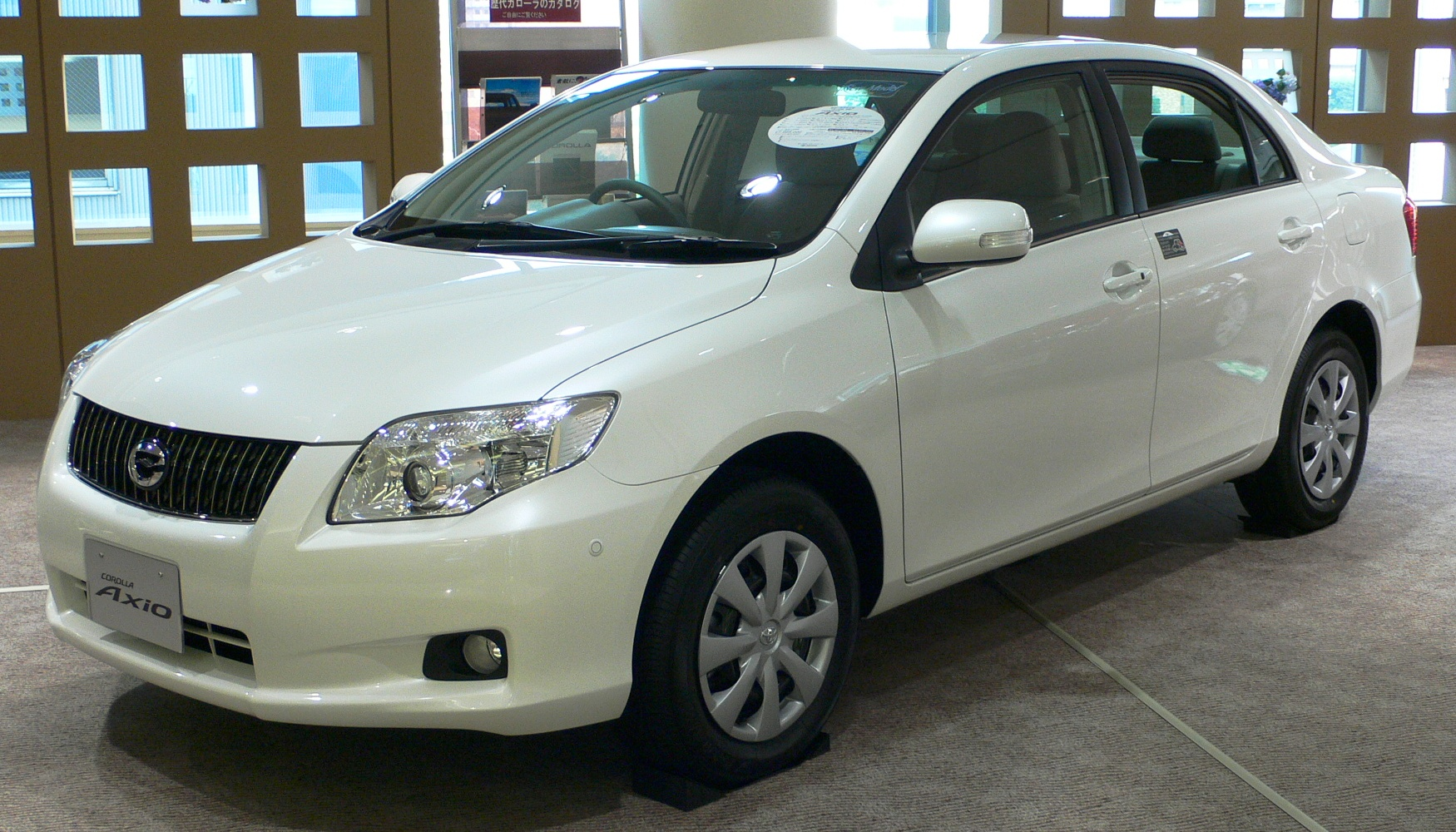 Toyota_Corolla-Axio(LUXEL) (2006 -) taken in Showroom of Toyota-AMLUX